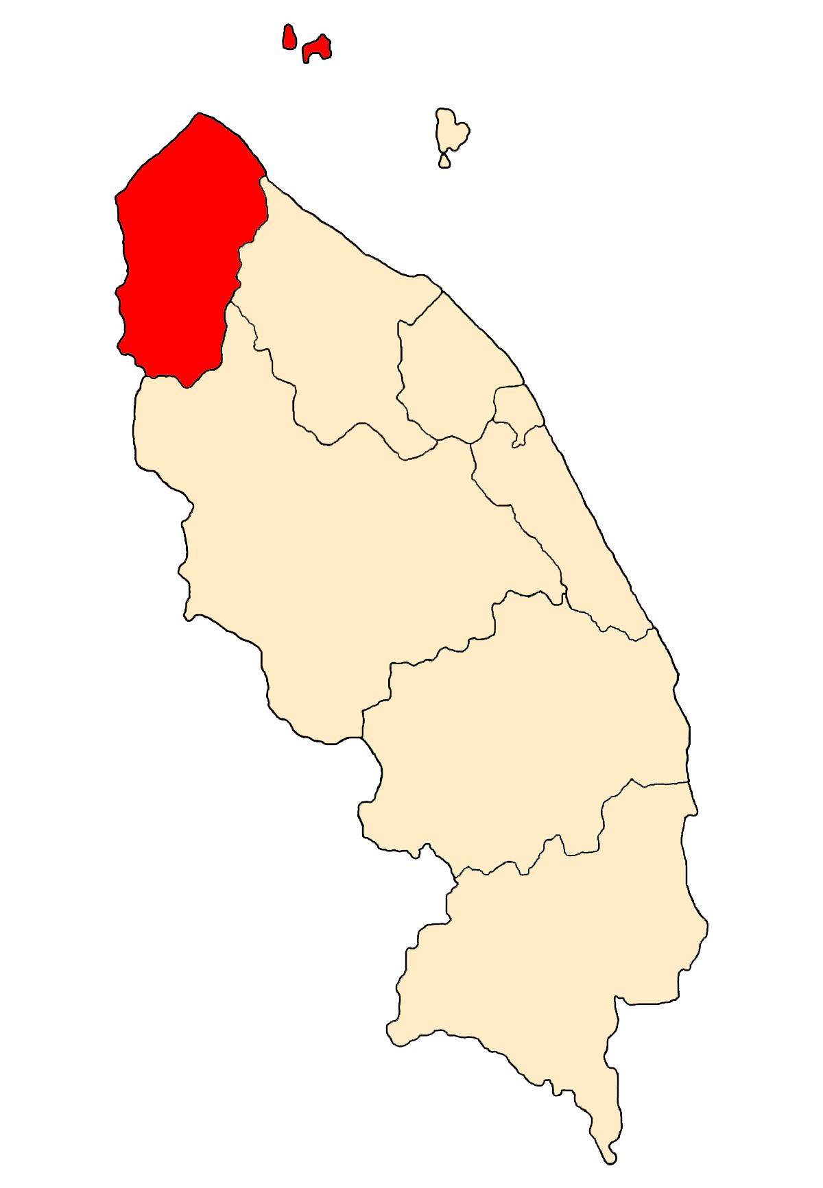 Location of Besut district, Terengganu, MALAYSIA